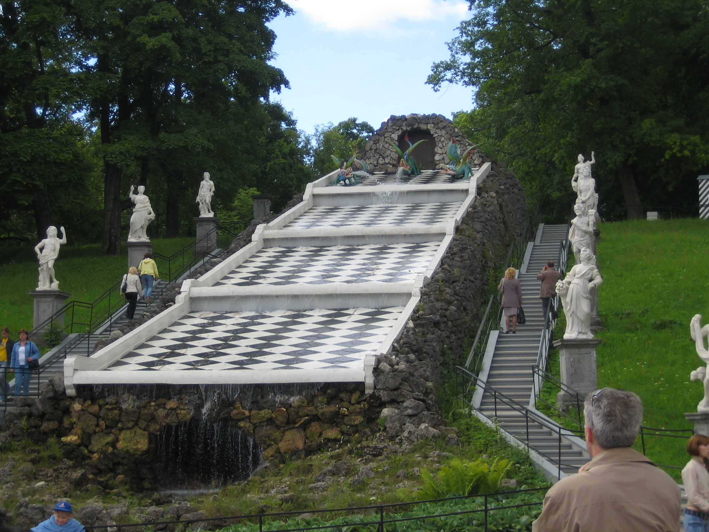 Chess mountain Cascade